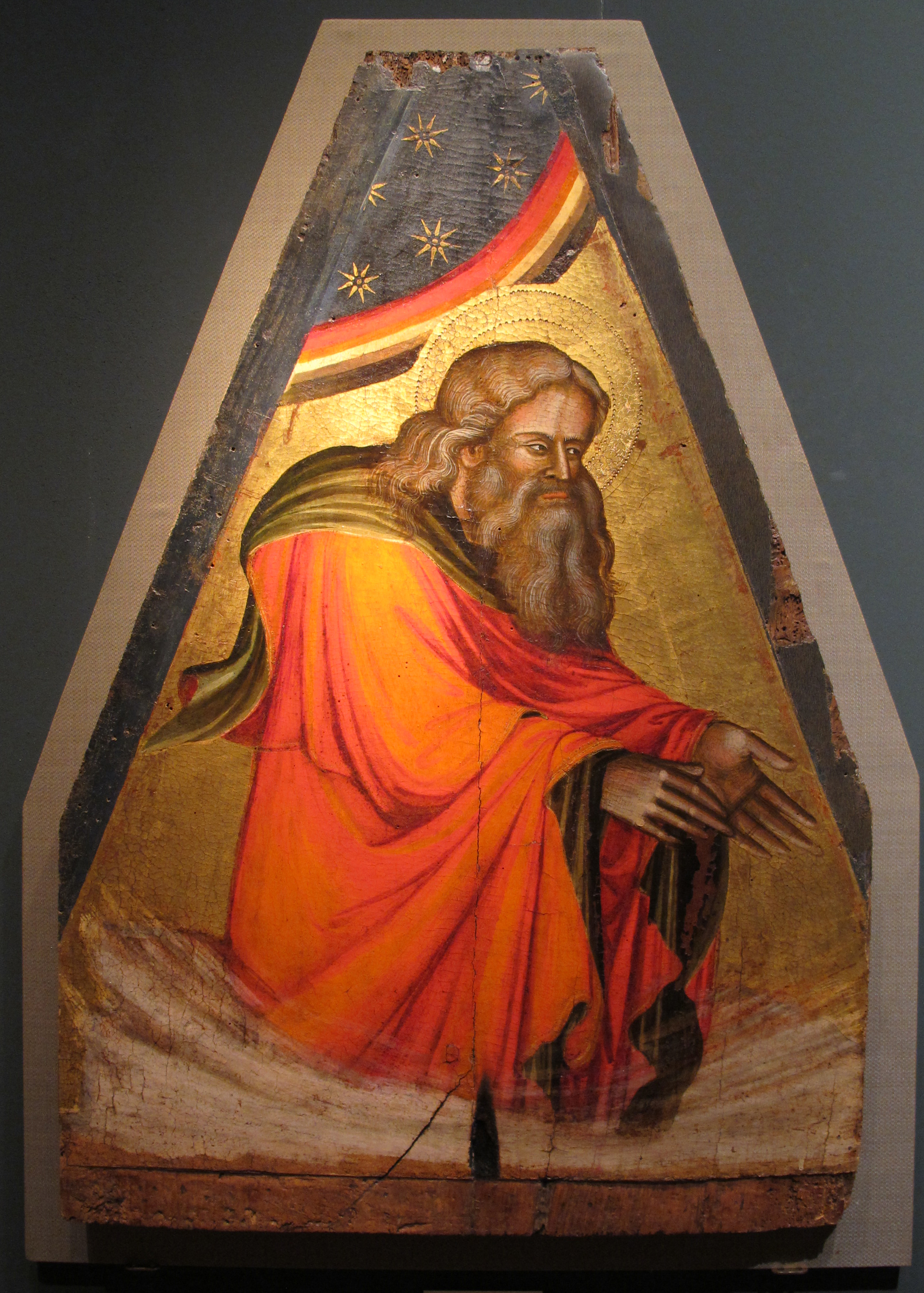 XXVIII Biennale dell'Antiquariato (2013), Courtesy of Grassi Studio